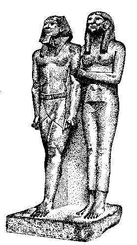 Statue of Egyptian Pharaoh Mycerinus (Menkure) and queen, Giza, ca. 2500 B.C.